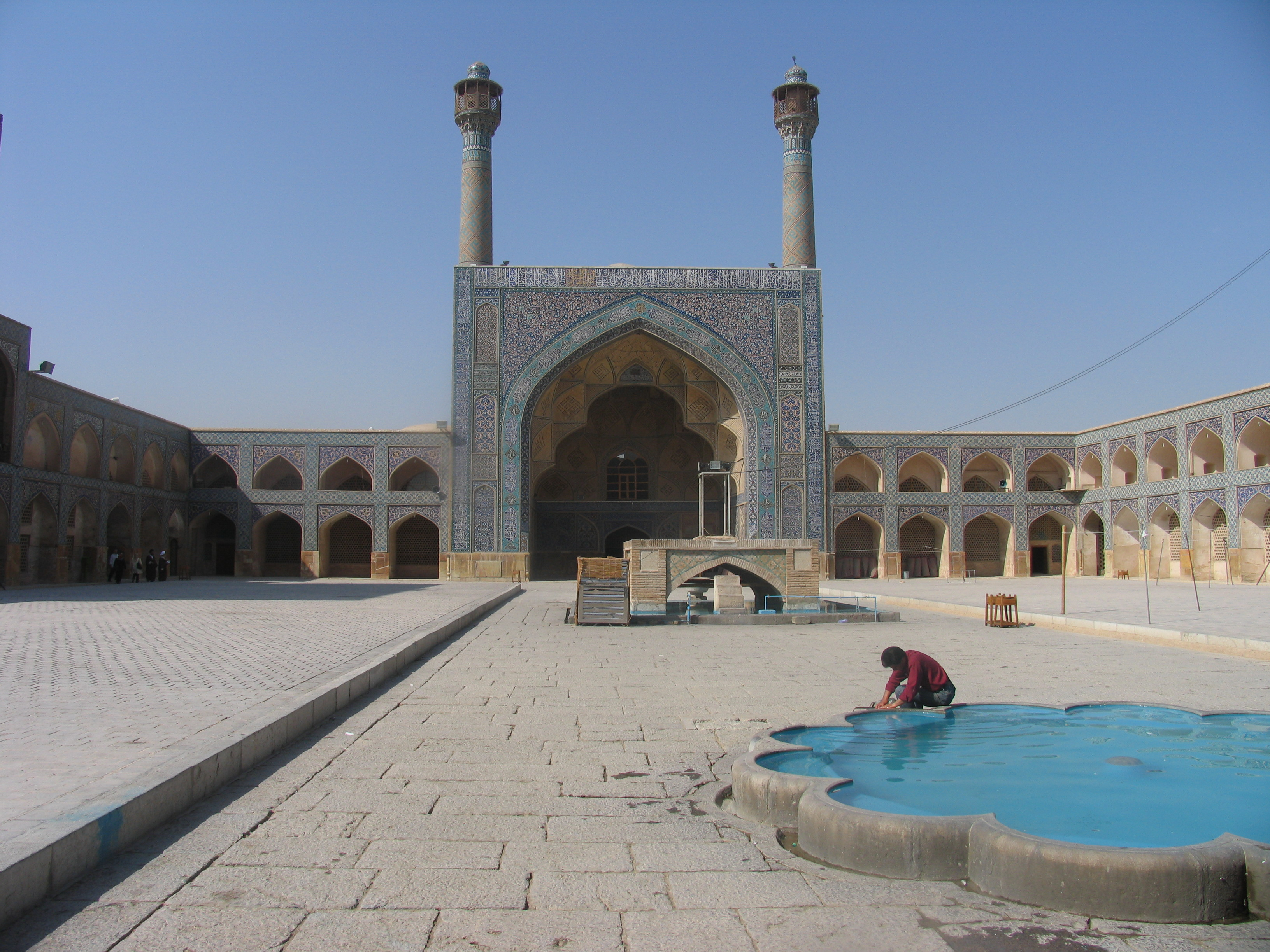 Courtyard of Jamé Mosque in Esfahan, looking towards south Iwan